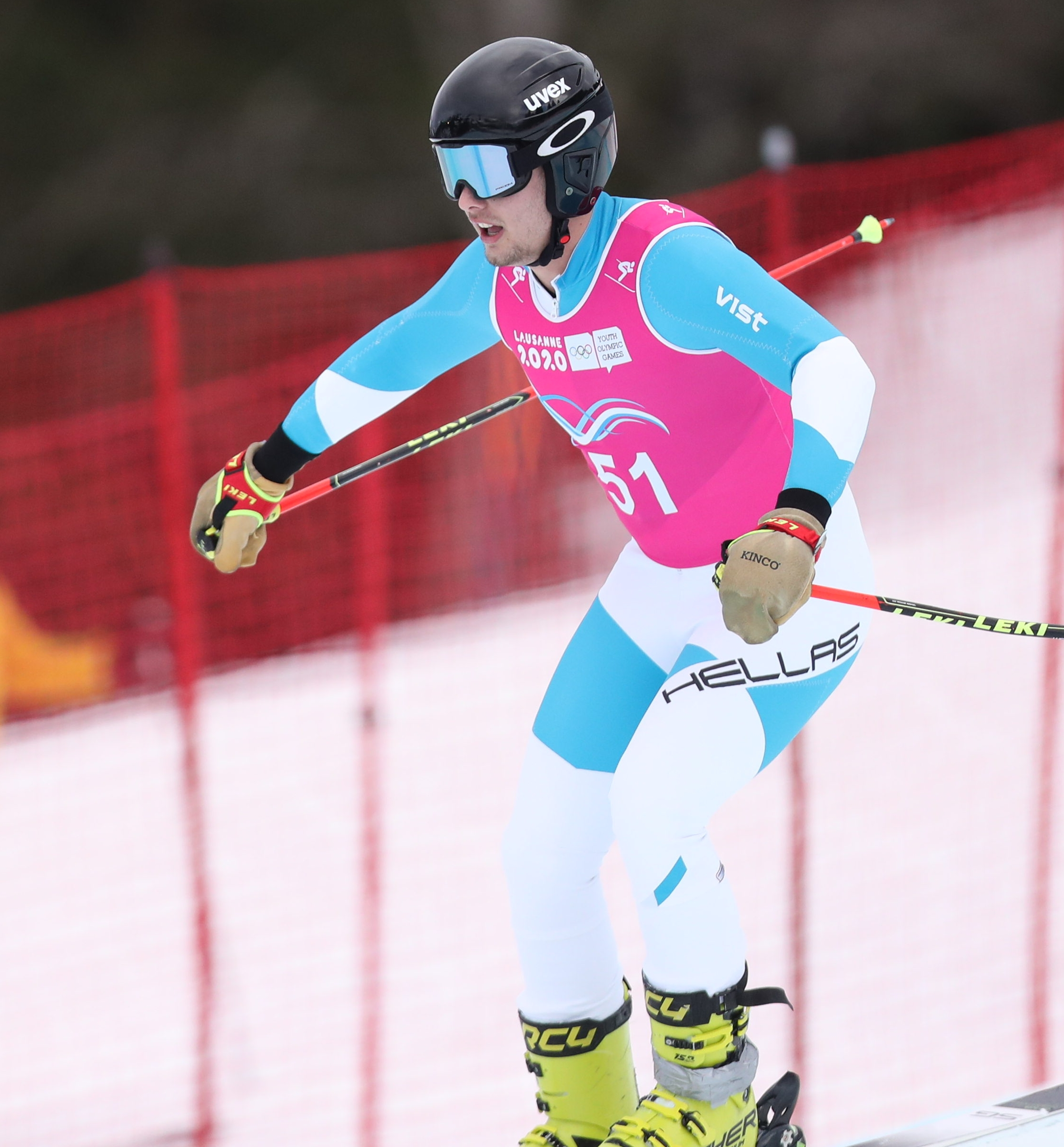 Men's Super G at the 2020 Winter Youth Olympics in Lausanne